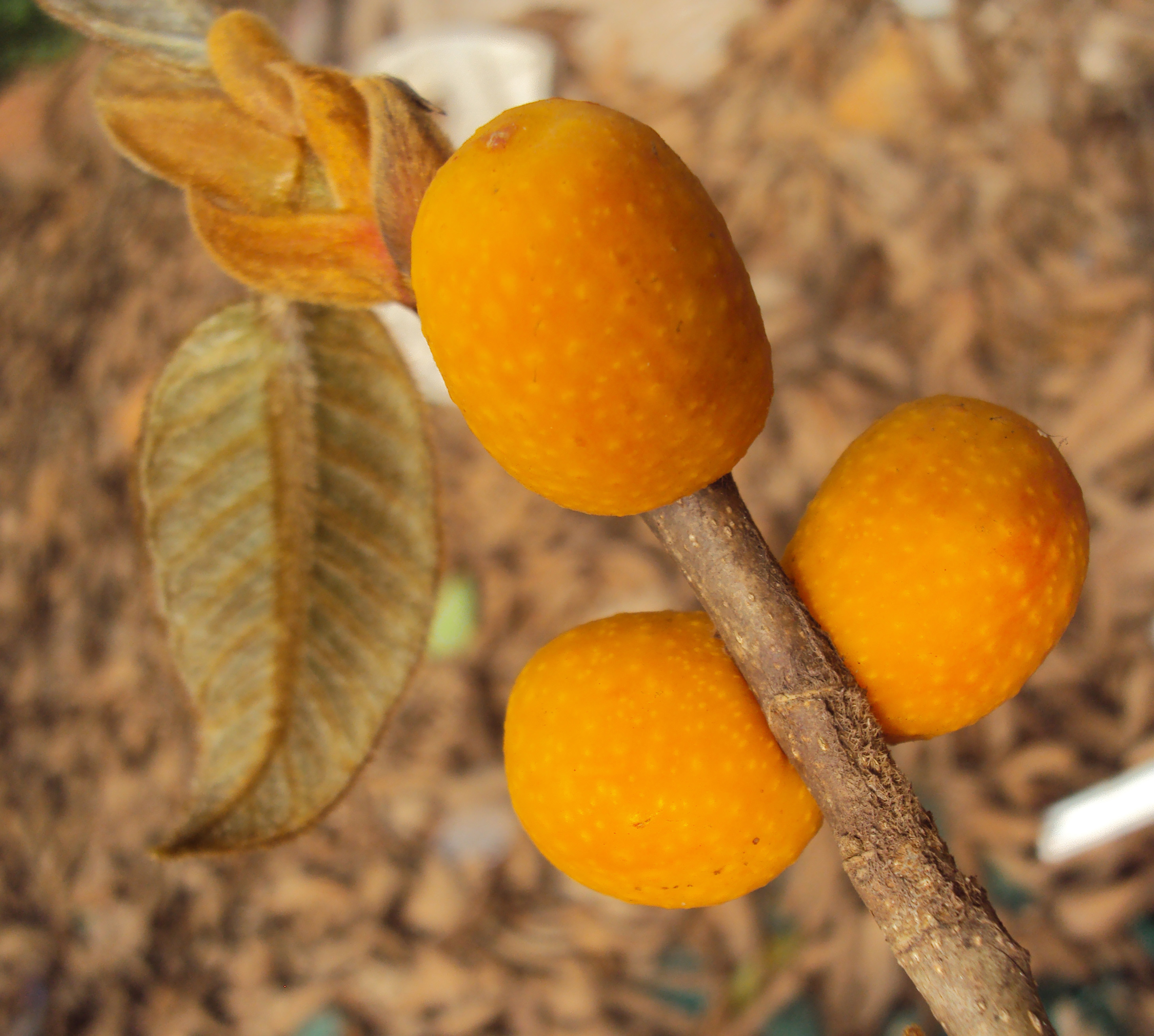 Ficus drupacea